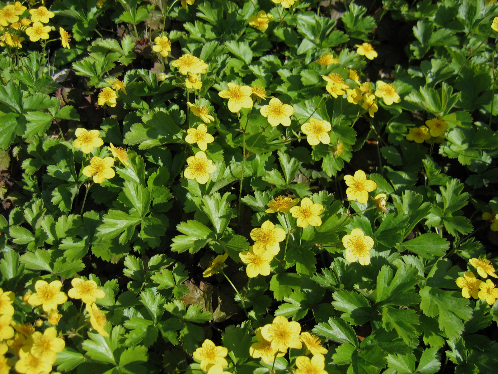 Waldsteinia ternata in flower, cultivated in Wrocław University Botanical Garden, Wrocław, Poland.